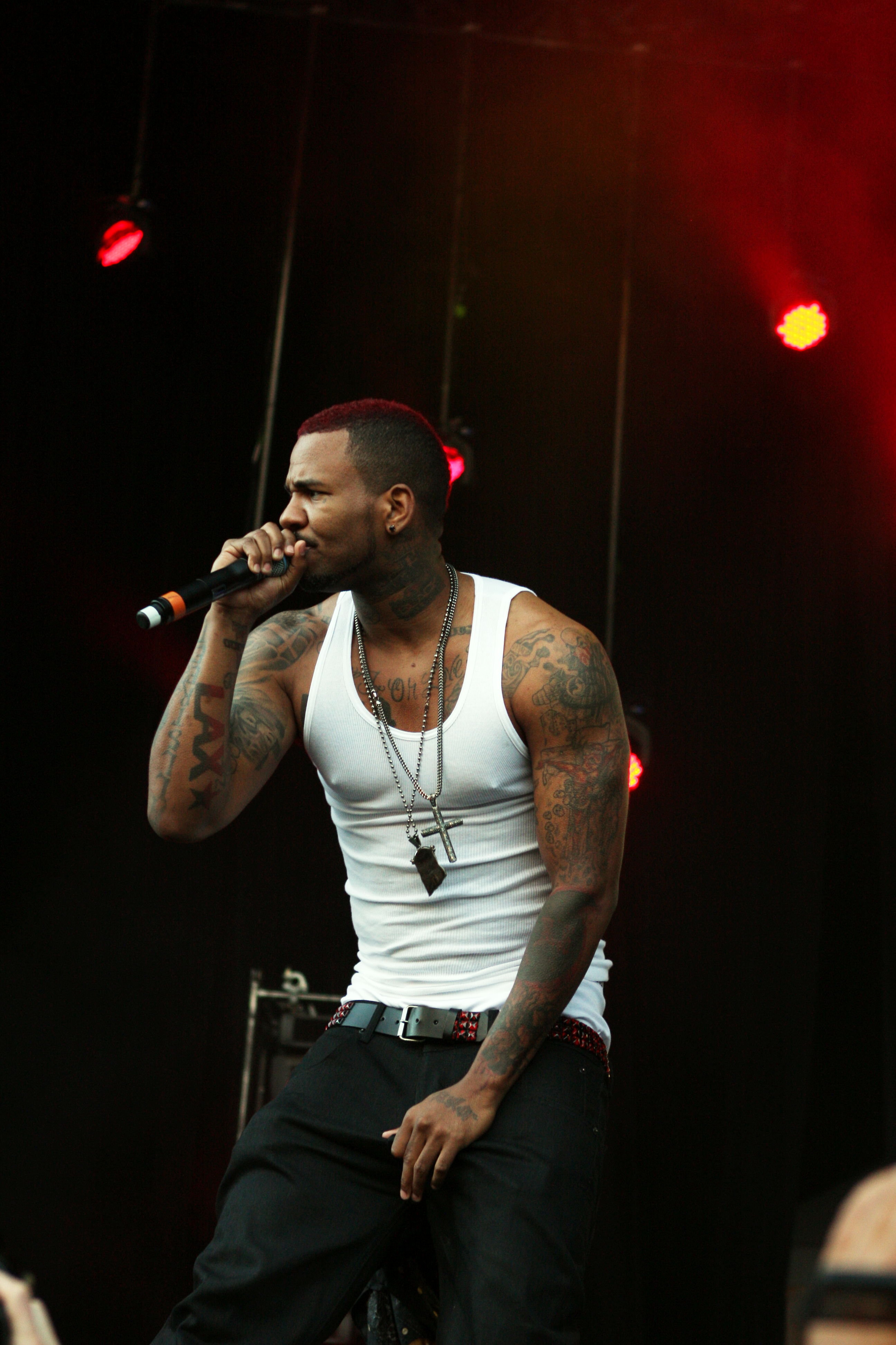 The Game Supafest Eva Rinaldi Photography